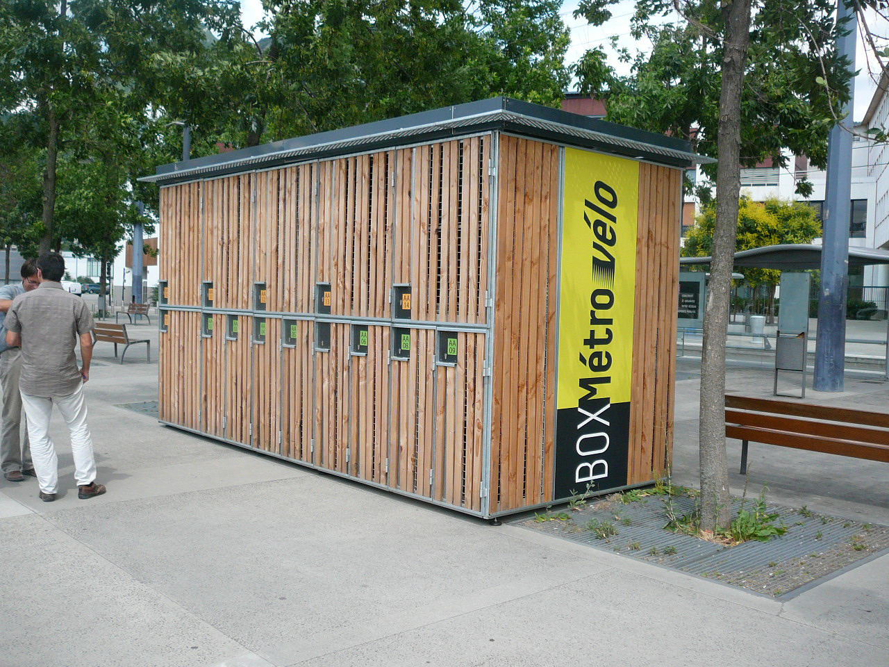 The MétroVéloBox of the Grenoble Bike Sharing and Bike Parking system.